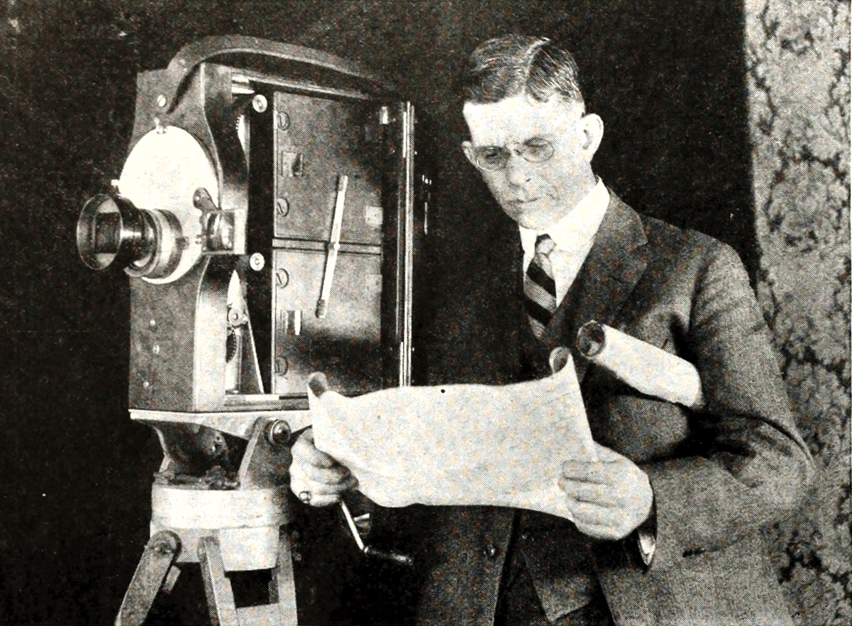 William Van Doren Kelley and his invention, the Prizma color camera, from an article on the history of film on page 78 of the September 1922 Photoplay.